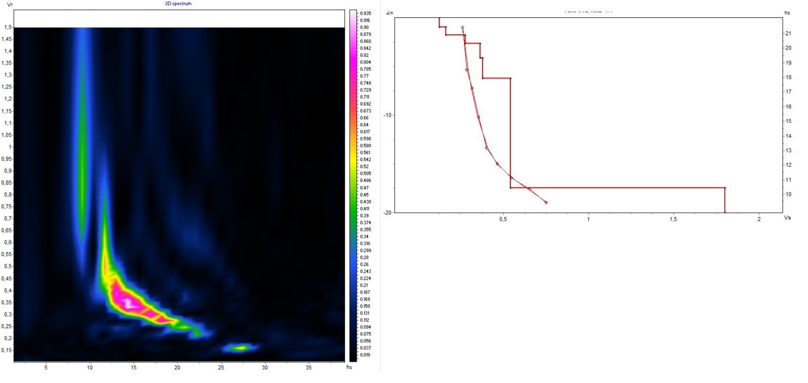 Dispersion curve of the Rayleigh wave